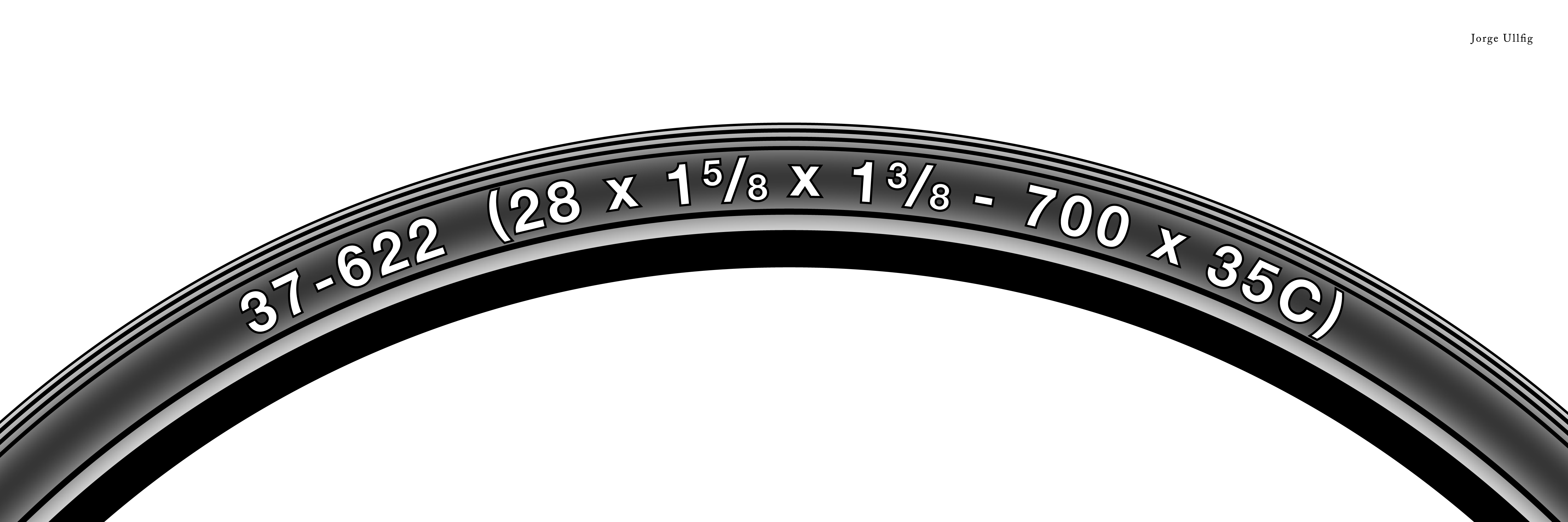 Bicycle tire markings. 37-622 (28 x 1⅝ x 1⅜ - 700 x 35C)